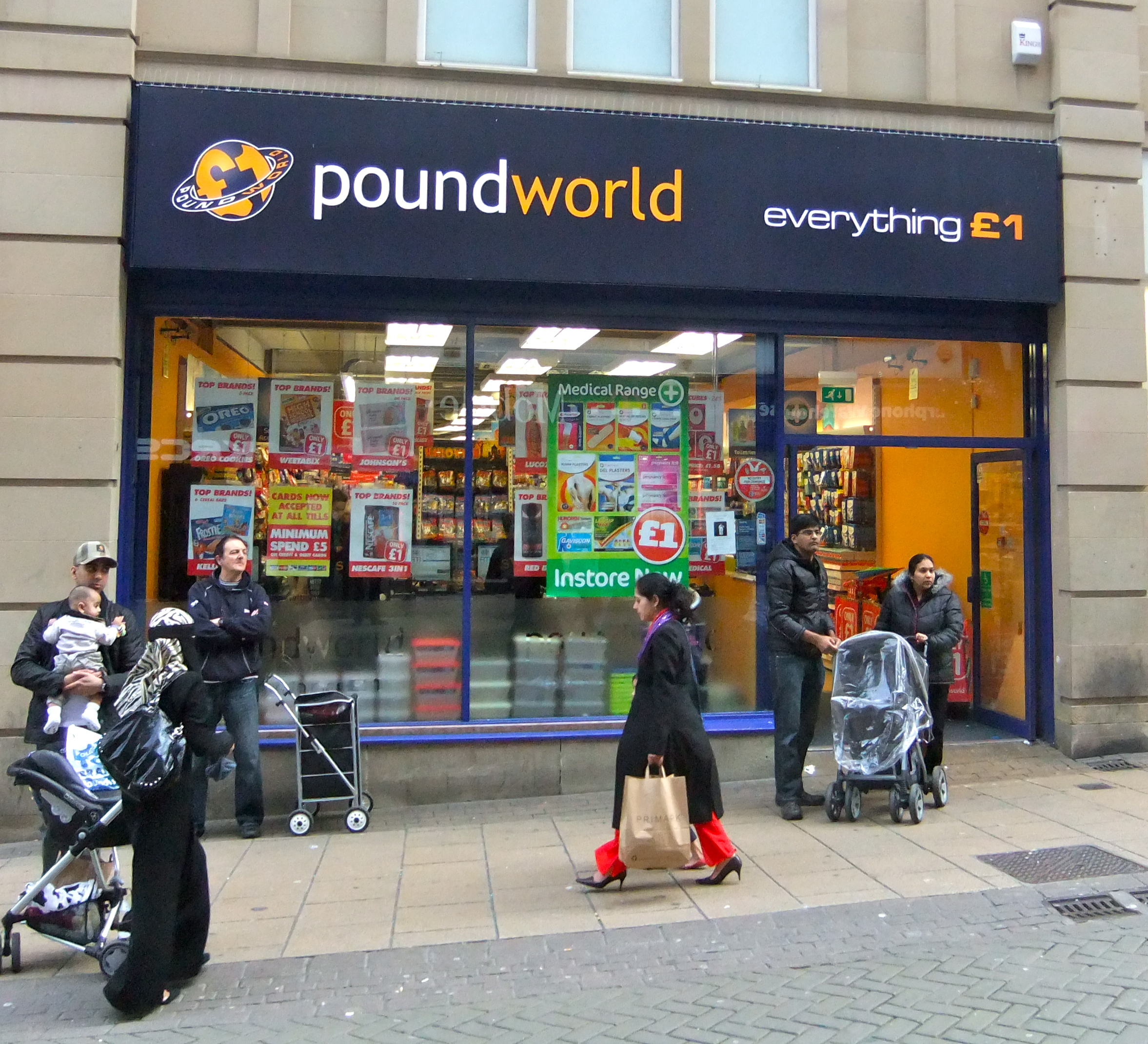 ...sadly, most of the stores in the city centre were like this, or closed